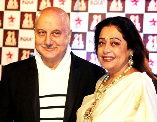 Anupam Kher and Kirron Kher at the the 21 years of Aap Ki Adalat celebration